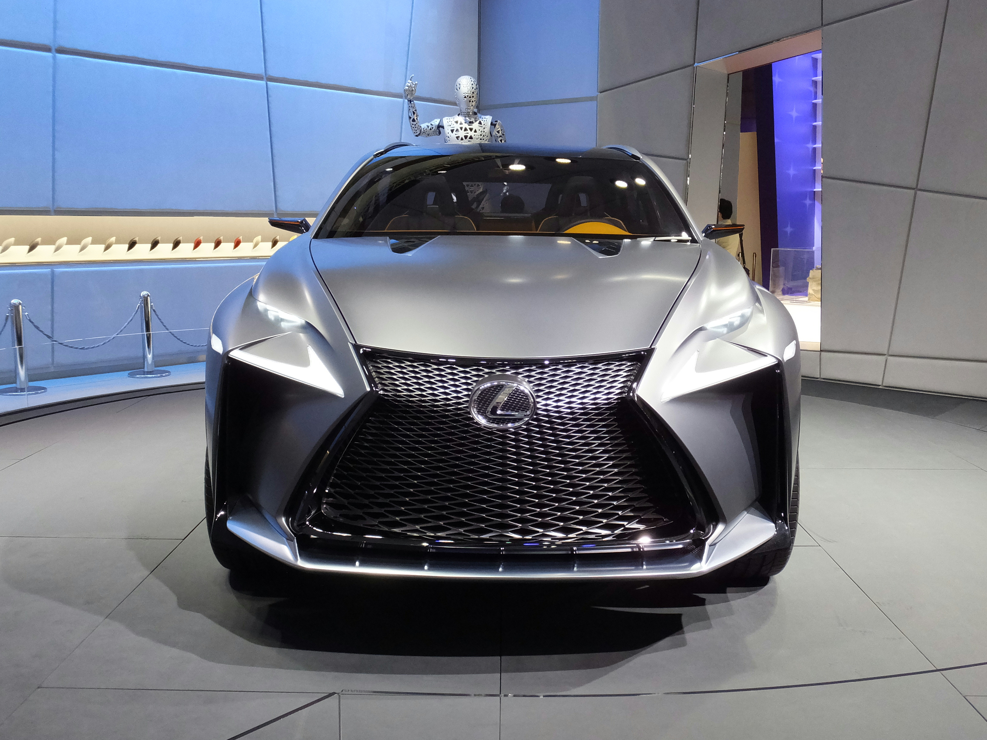 LEXUS, LF-NX, Front view at Tokyo Motor Show 2013